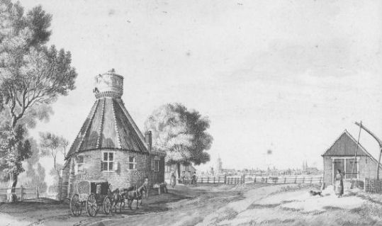 Koerhuis near Deventer